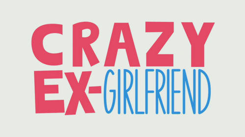 logo of the TV series Crazy Ex-Girlfriend